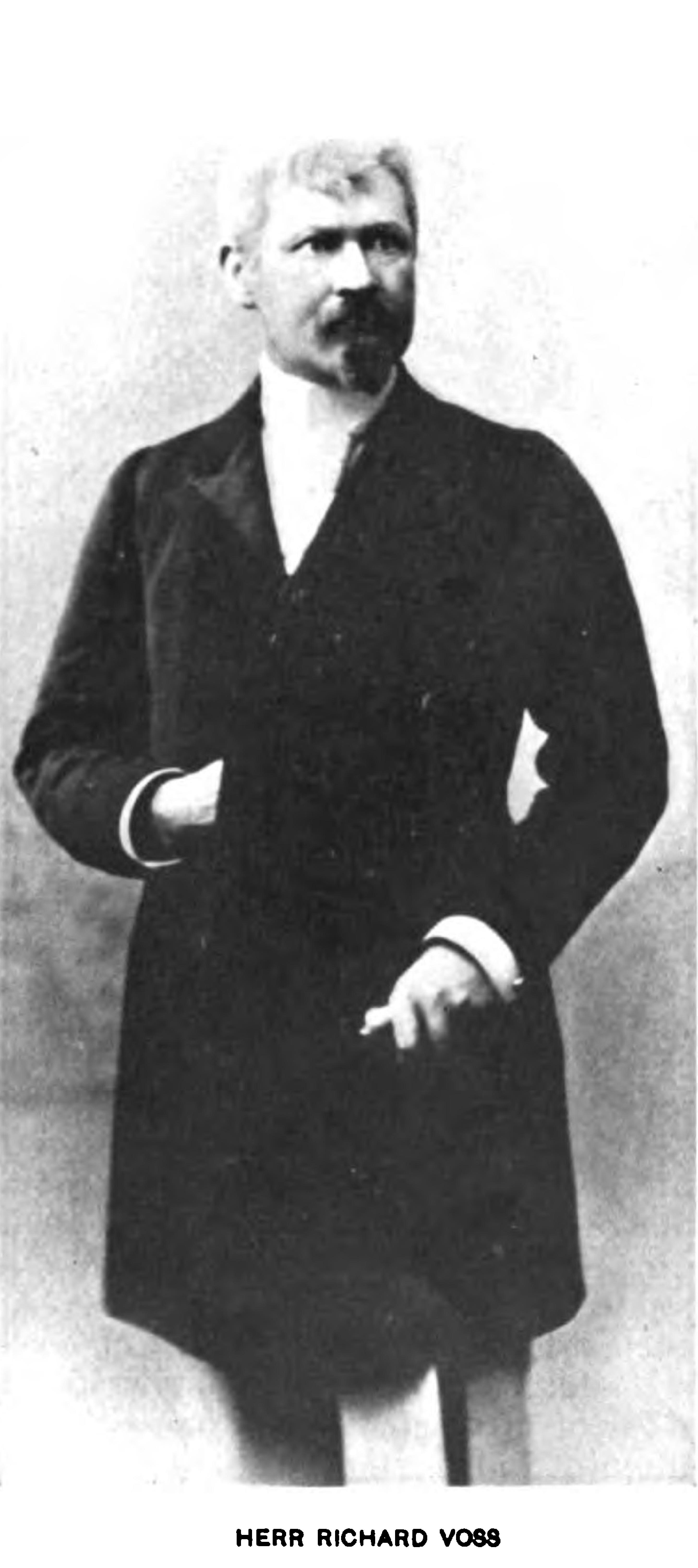 Richard Voß (September 2, 1851 – June 10, 1918) was a German dramatist and novelist.